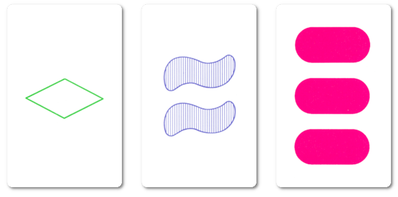 Three cards from the game Set, showing all variations of color, symbol, shading, and number.